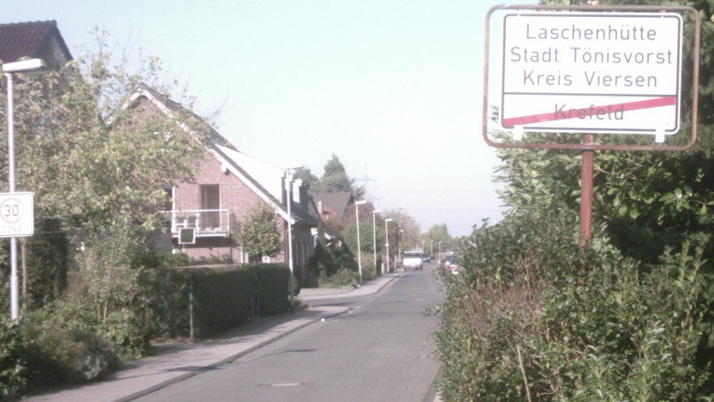 Laschenhütte, Tönisvorst, Germany